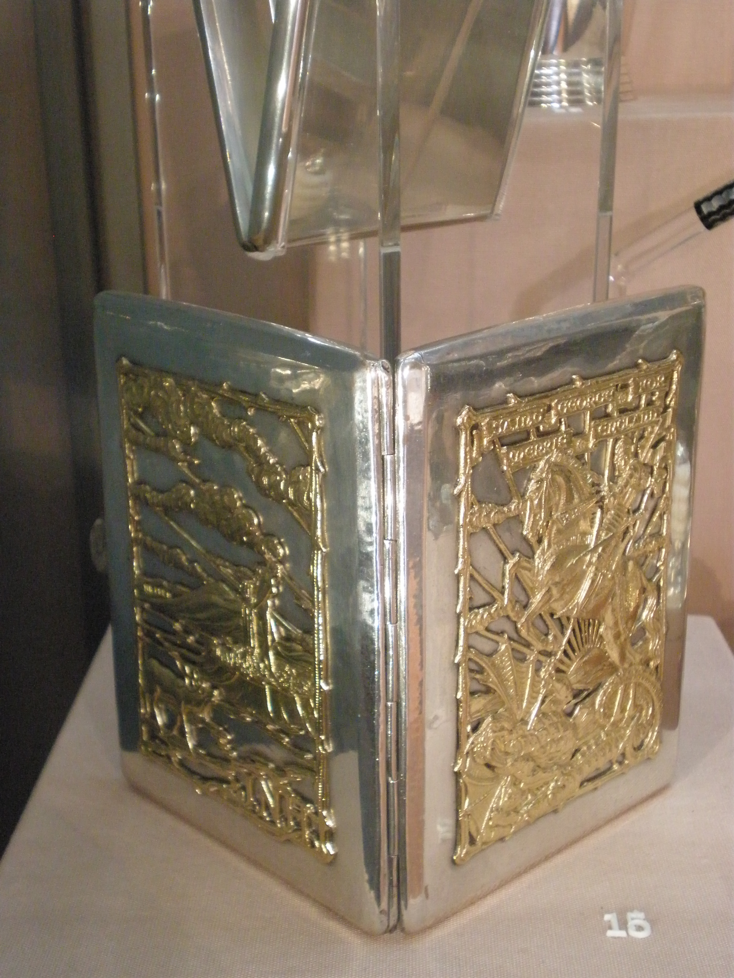 Cigarette Case Silver, mark of Omar Ramsden 1922-23 Silver with applied 18 carat gold fretwork panels, hinged lid, lightly hammered bevelled edges, interior gilded Bequeathed by J. N. Hart Collection ID: Circ.172-1964 This photo was taken as part of Britain Loves Wikipedia in February 2010 by David Jackson.